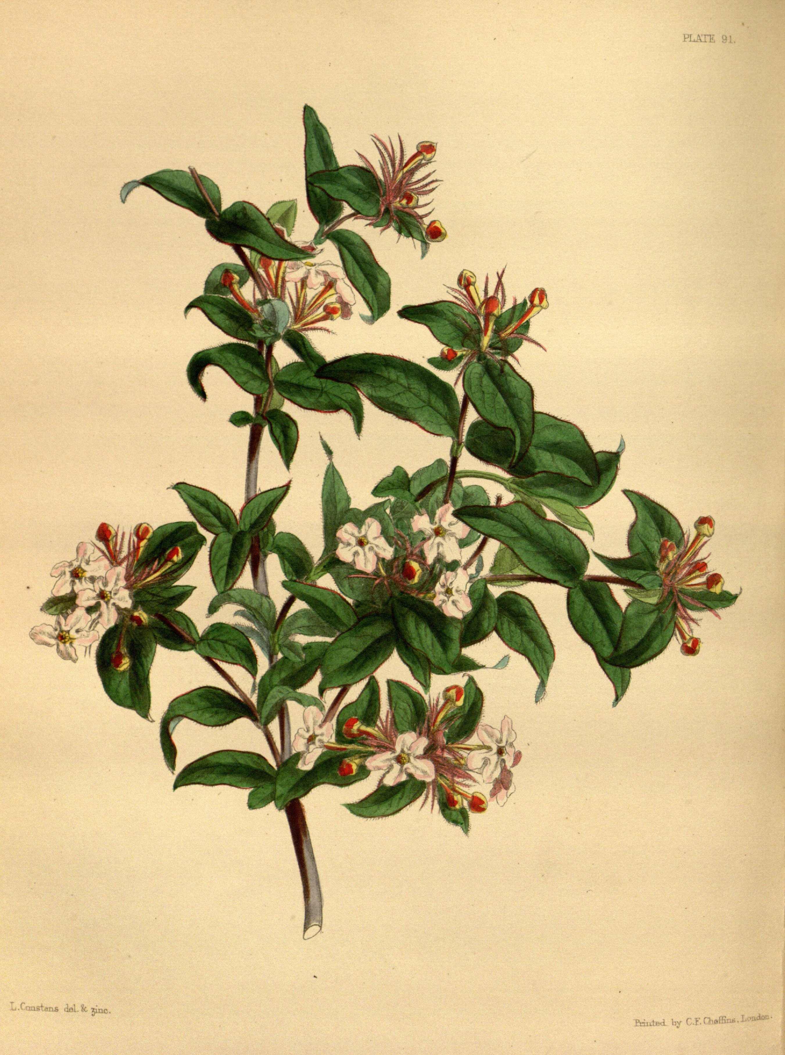 Abelia triflora R.Br. ex Wall.